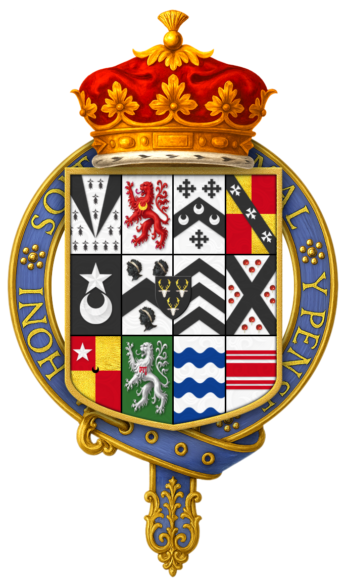 Coat of arms of John Holles, 1st Duke of Newcastle-upon-Tyne, KG, PC